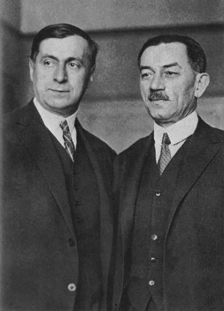 Jovan Dučić and Milan Rakić